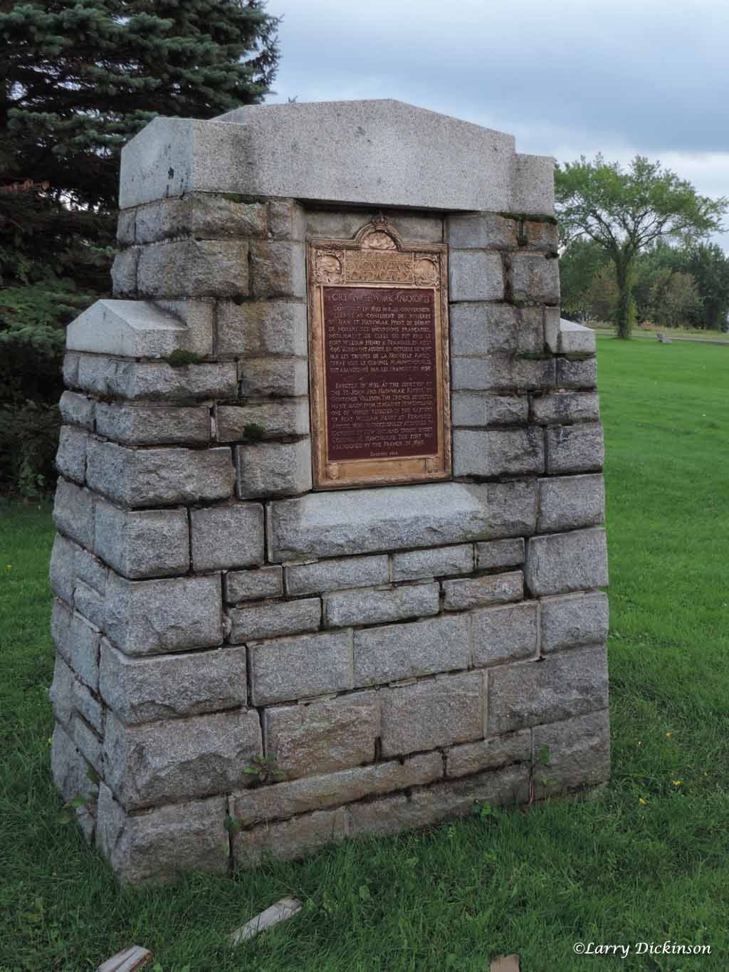 Fort Nashwaak (Naxoat) National Historic Site of Canada is marked by a Historic Sites and Monuments Board of Canada plaque located in Carleton Park, near the intersection of Union Street and Gibson Street in Fredericton, New Brunswick.